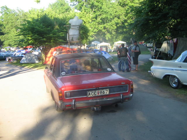 A 1971 Ford 17M 1700 S